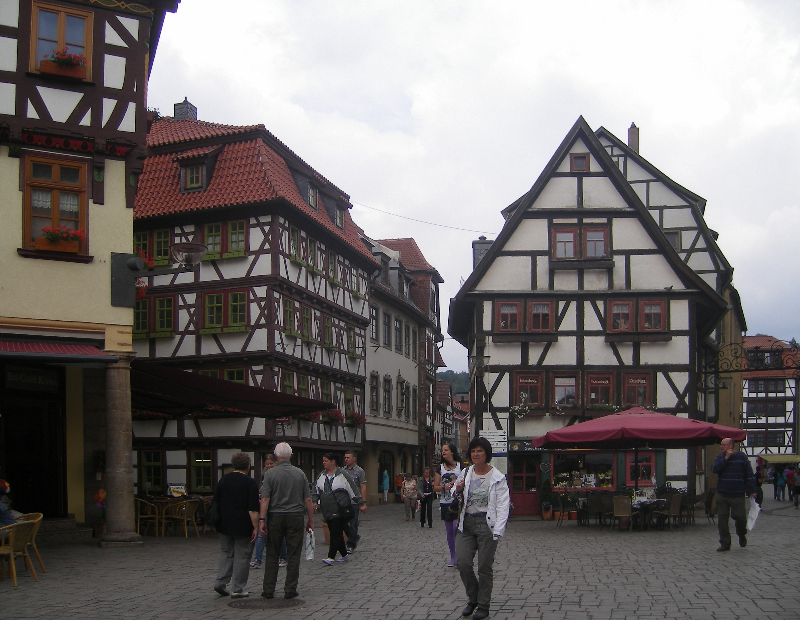 Old market wkhäusernith timber framing houses in Schmalkalden/Thuringia